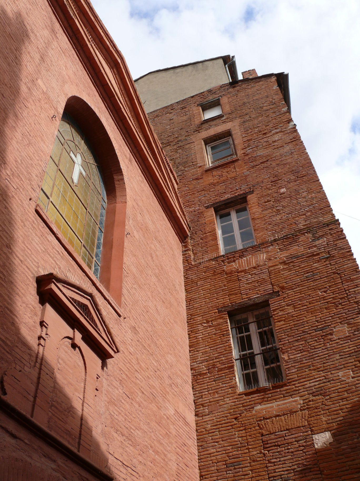 The Maison Seilhan, in Toulouse (Haute-Garonne, France).